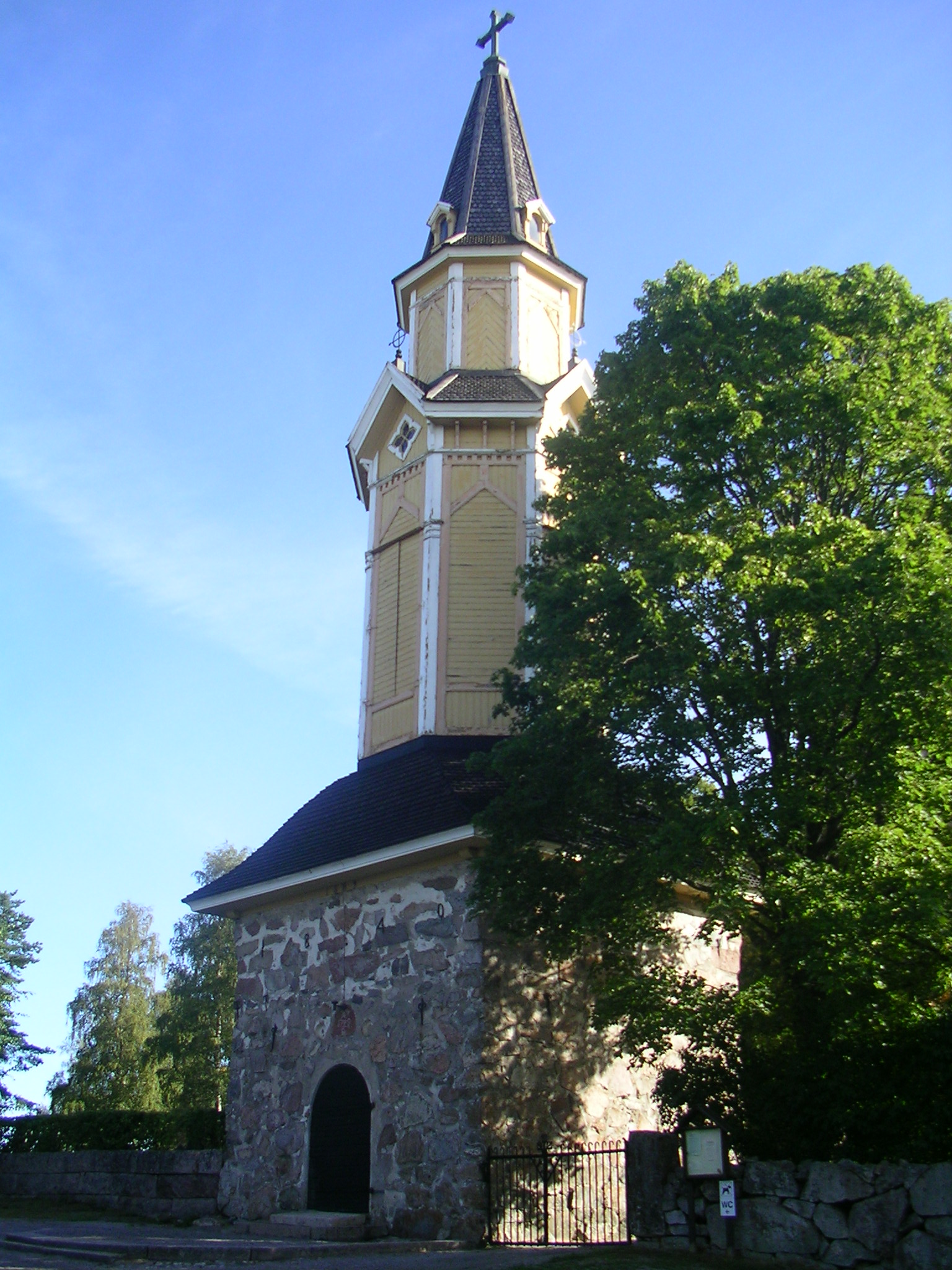 The belltower in Pertteli, Finland.